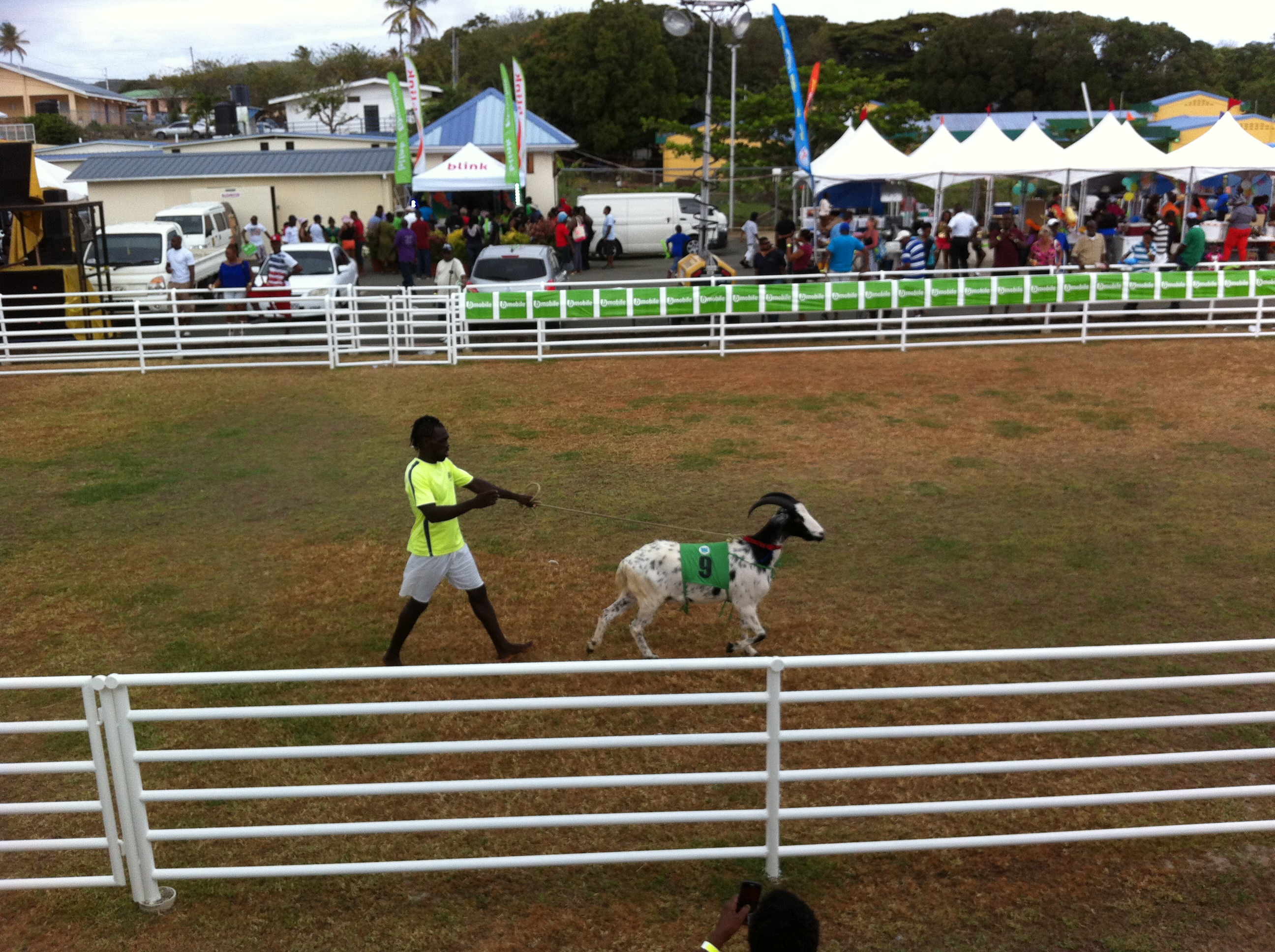 Goat race, Buccoo, Tobago, Trinidad and Tobago, April 2014.